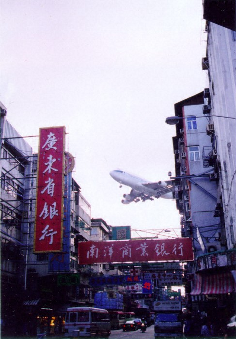 A Cathay Pacific Boeing 747 on Final Approach to Kai Tak Airport